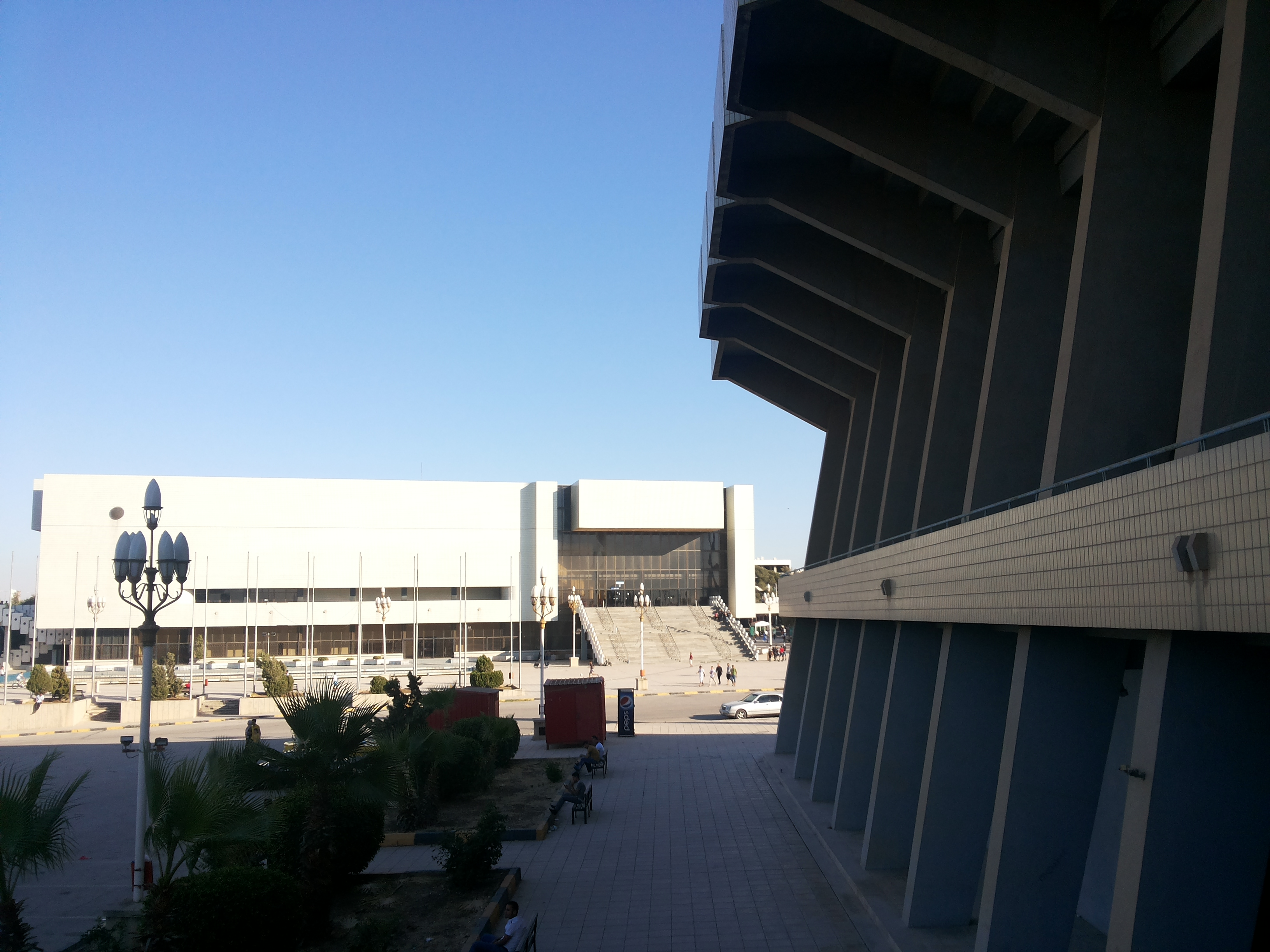 Conventions Hall at Sport City, Irbid, Jordan